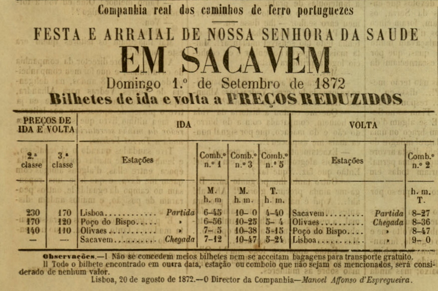 Advertisement of the Companhia Real dos Caminhos de Ferro Portugueses (Royal Company of the Portuguese Railways), for return tickets at special prices to Sacavém, for the fair of the Nossa Senhora da Saúde. This image was published on the Diario Illustrado newspaper No. 62, of 31st August 1872, and scanned by the Biblioteca Nacional de Portugal.